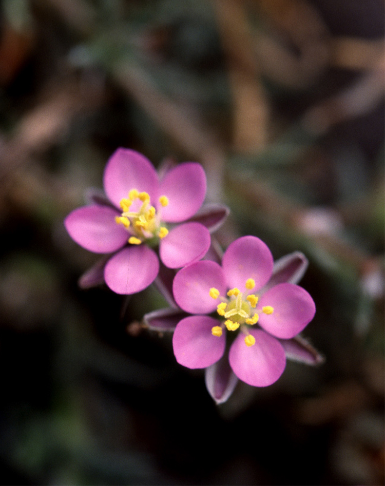 Spergularia macrotheca at Humboldt Bay National Wildlife Refuge Complex, California, USA